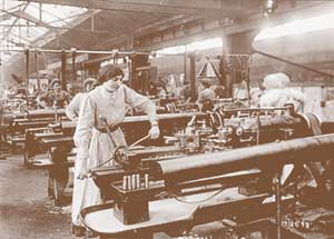 Fabricas que visitaba Gabriela Coni in Buenos Aires.